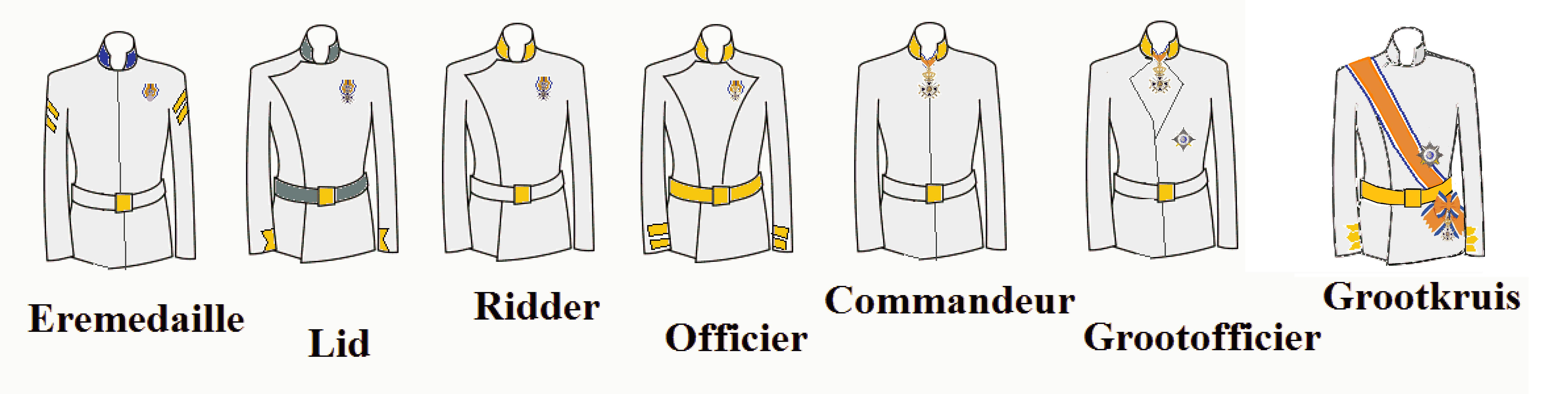 Order of Orange Nassau